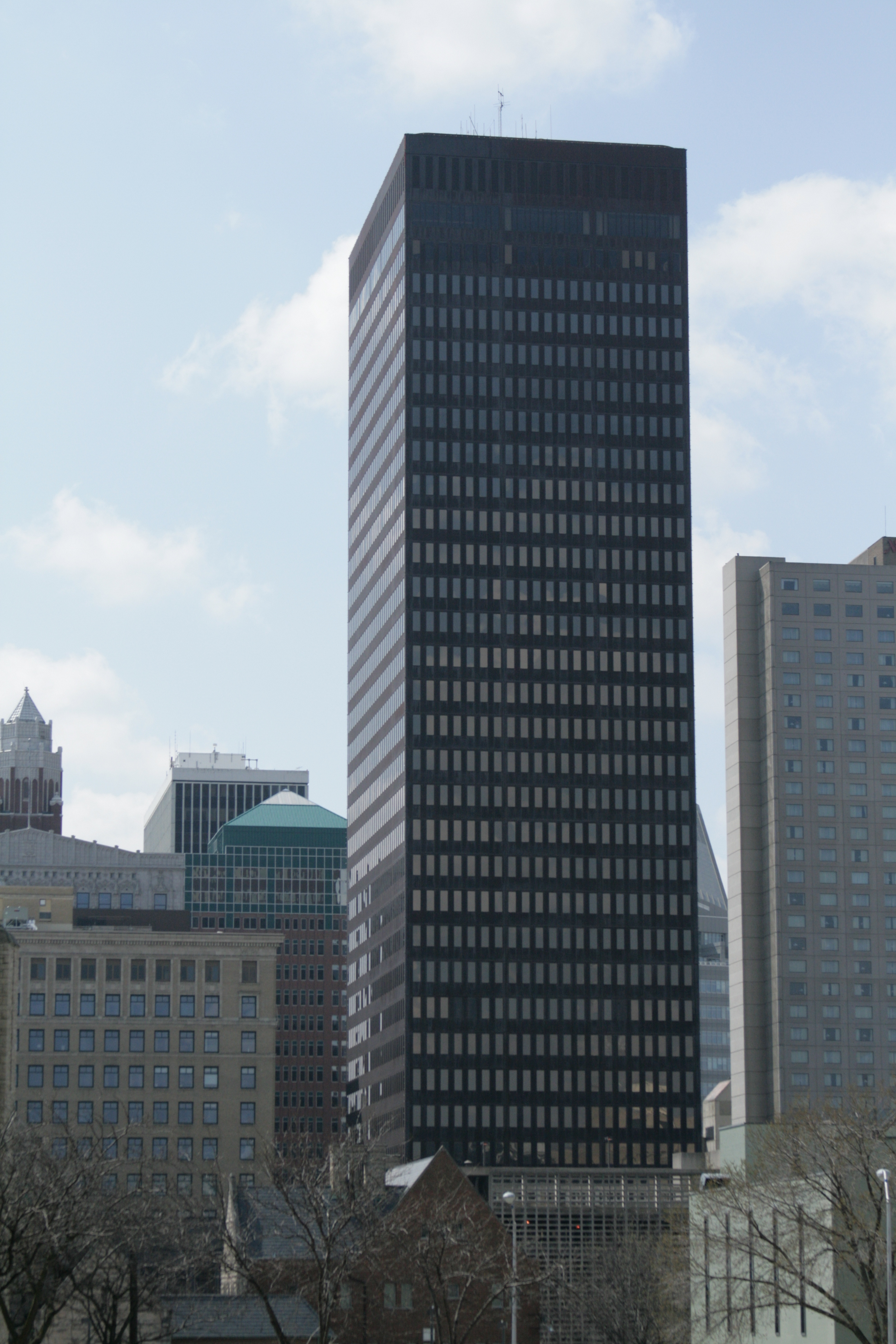 View of the Ruan Center in Des Moines, Iowa, USA, showing the north-east side of the building